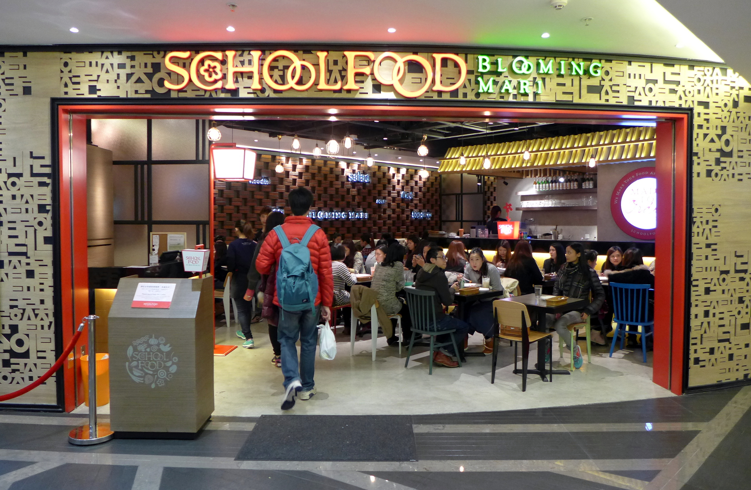 School Food in Times Square, Hong Kong